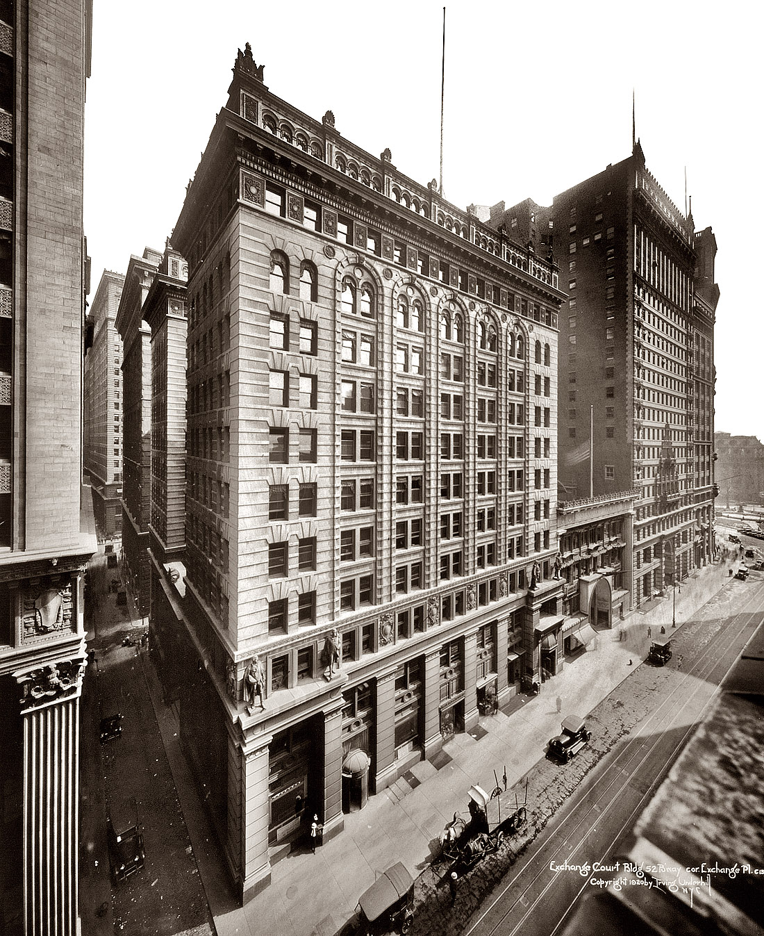 New York City: Exchange Court Building at 52 Broadway and Exchange Place. 1920 photograph; building built in 1898.